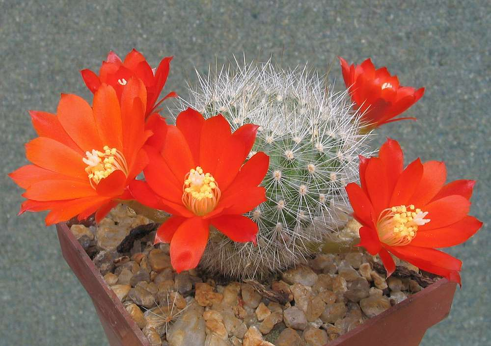 Rebutia fiebrigii (Gürke) Br. et R. var. fiebrigii - cultivated plant (seed marked L945) from own collection.